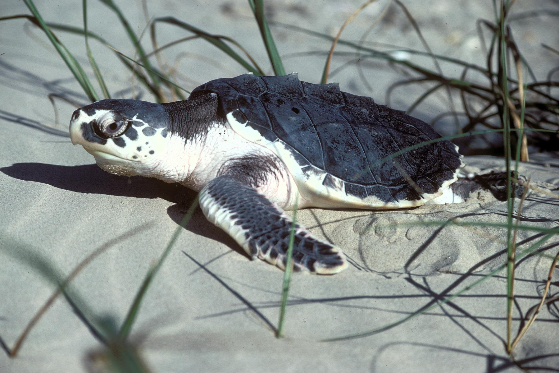 Kemps Ridley Sea Turtle, Texas, Gulf Coast Ecosystem Restoration images